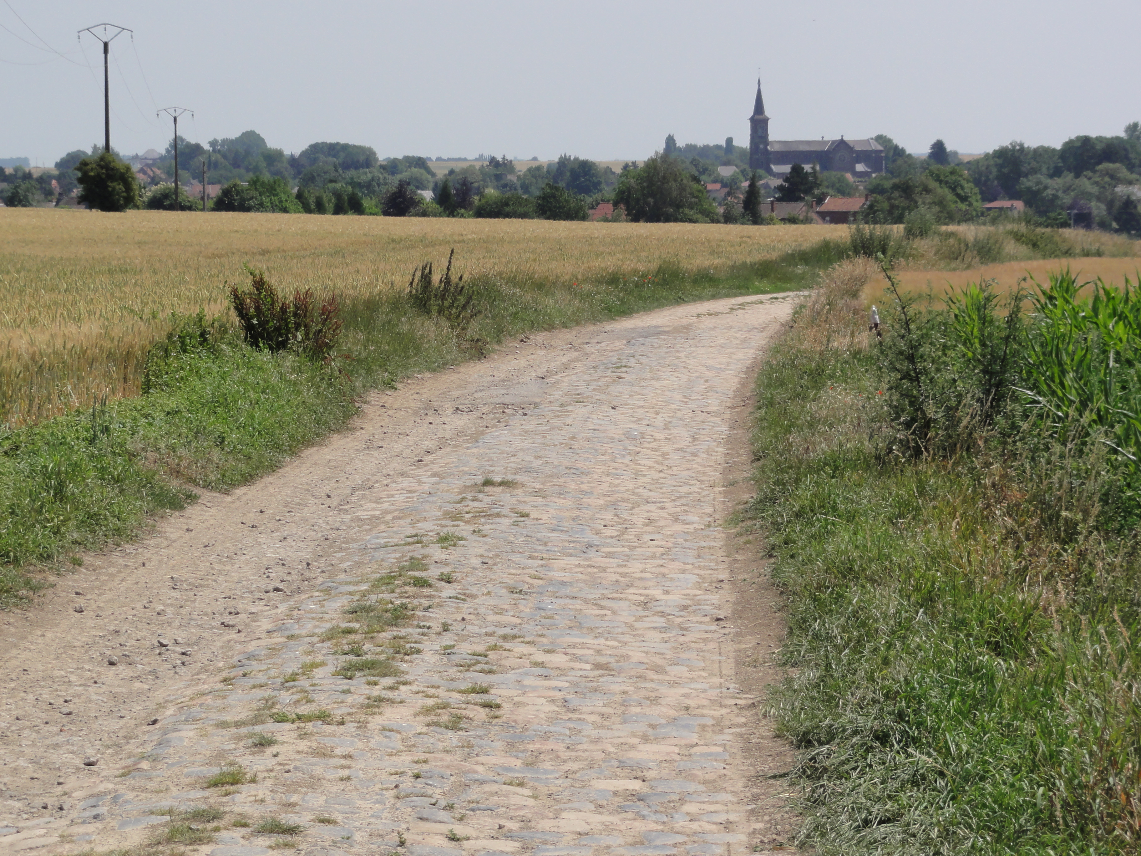 Préseau (Nord, Fr) une chaussée